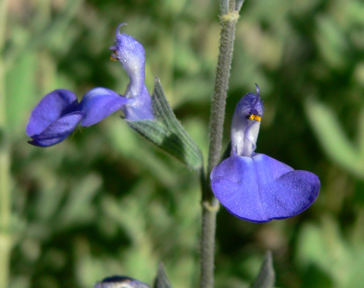 Salvia chamaedryoides at the Springs Preserve garden, Las Vegas, Nevada